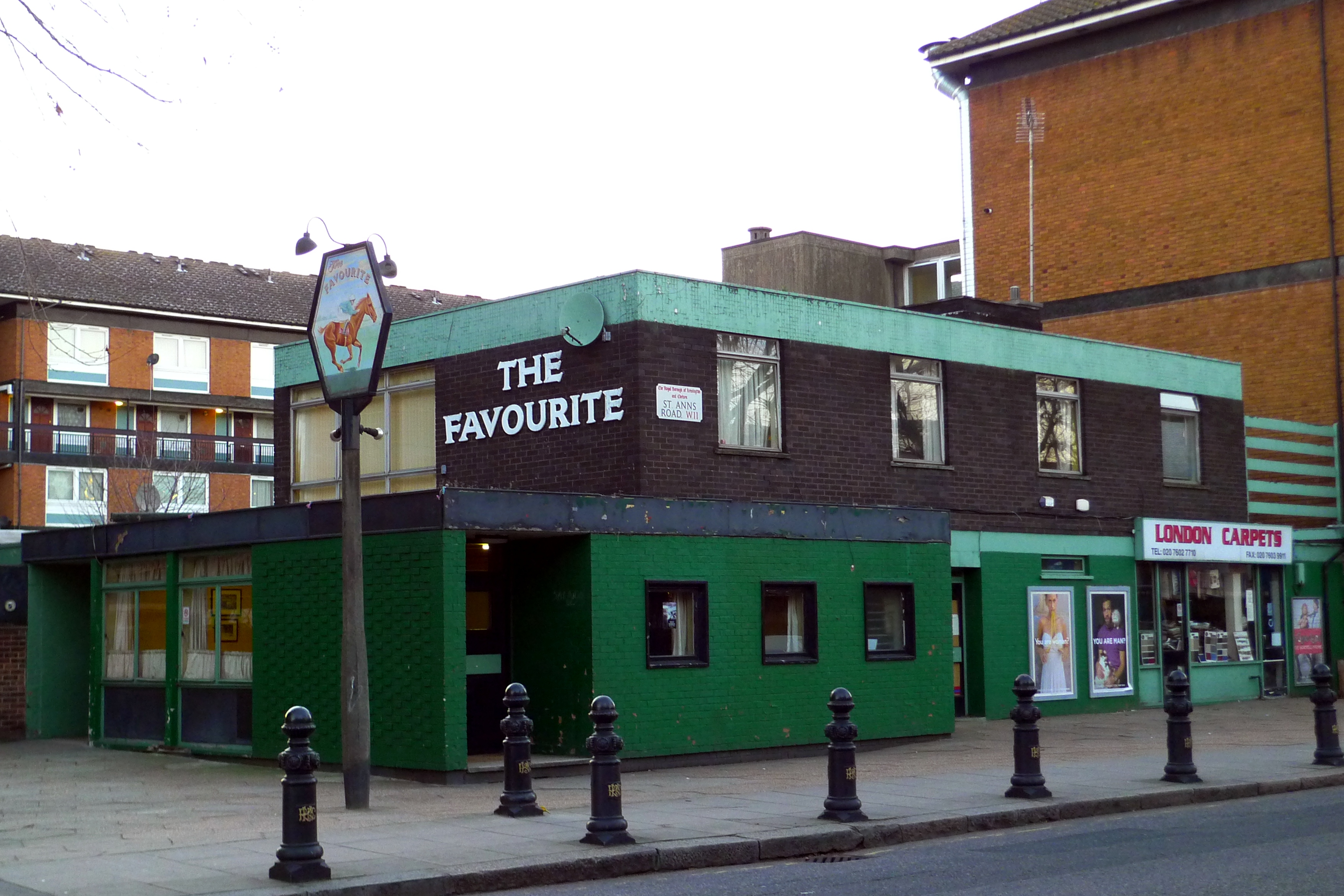 A squat estate pub, rebuilt post-war and formerly located a little to the west. Address: 27 St Anns Road (formerly sited at Latimer Road, formerly Clifton Road). Former Name(s): The Duke of Sussex. Owner: Enterprise Inns; Watney Combe Reid (former). Links: Beer in the Evening Dead Pubs (history)